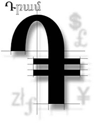 This is the image of the original idea for the Armenian Dram Sign (Monetary Graphical Symbol)